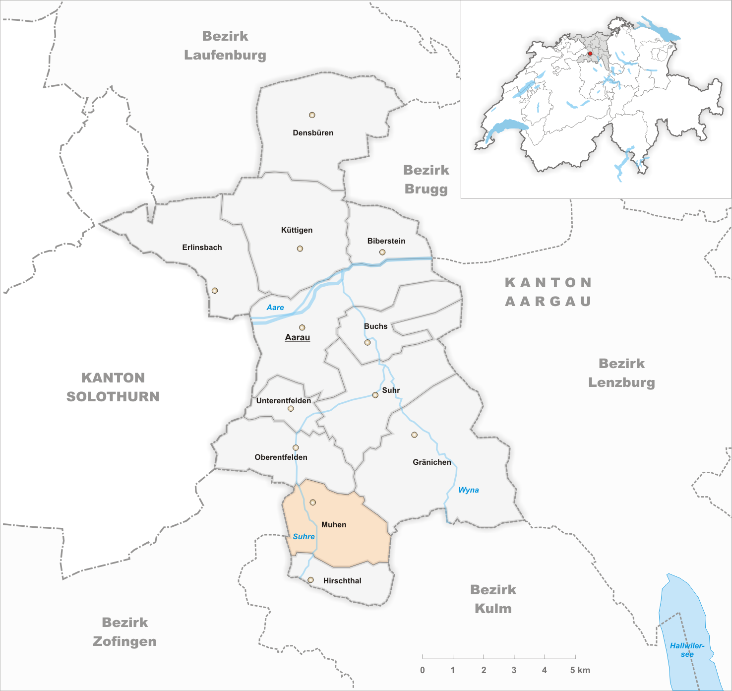 Municipality Muhen